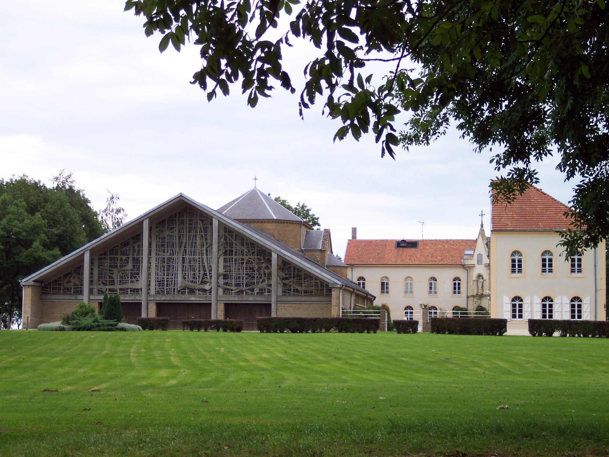 Saint-Walfroy Hermitage in Margut, Ardennes, Champagne-Ardenne, France